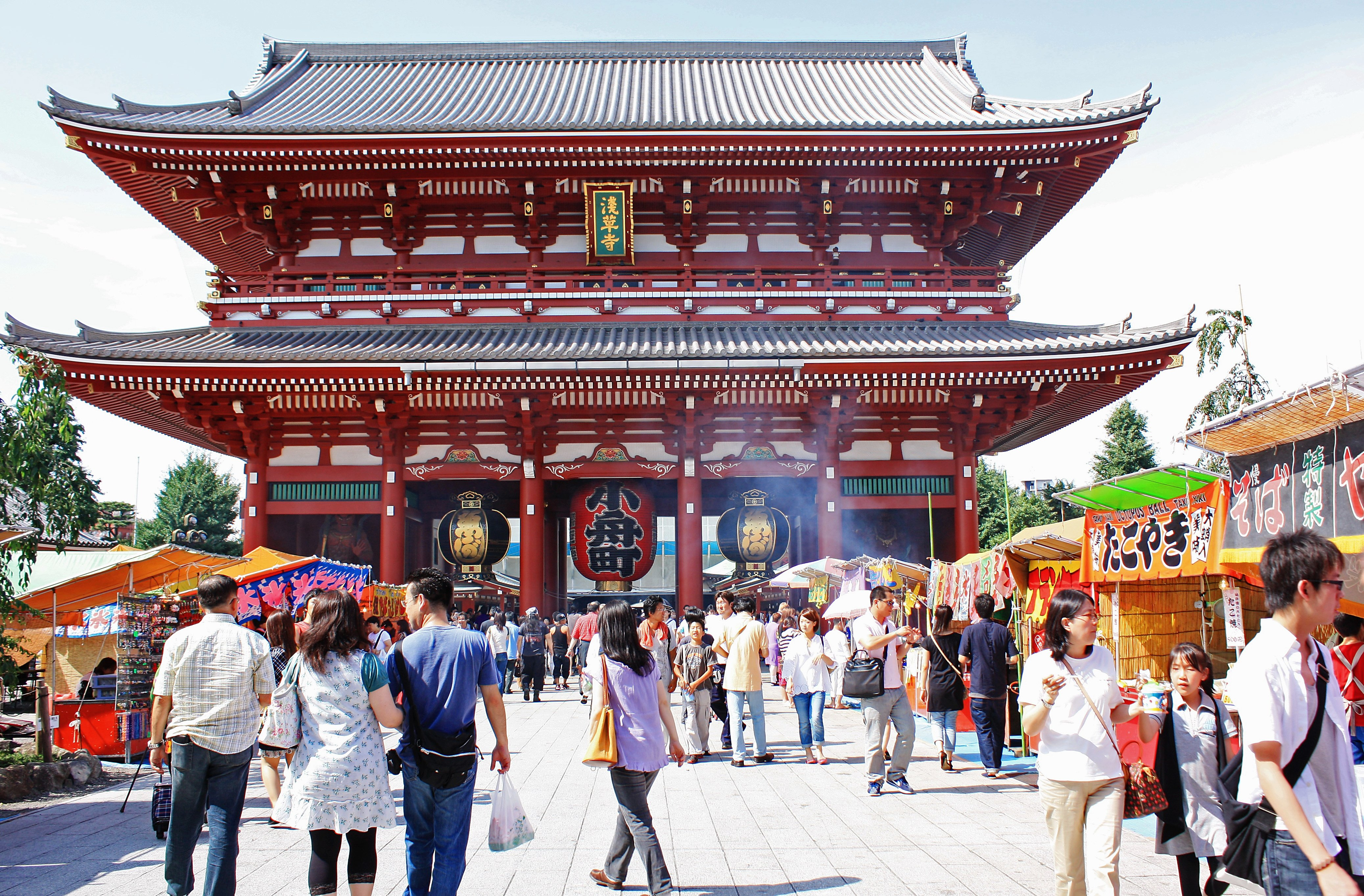 Hozomon (Treasure House Gate), Senso-ji